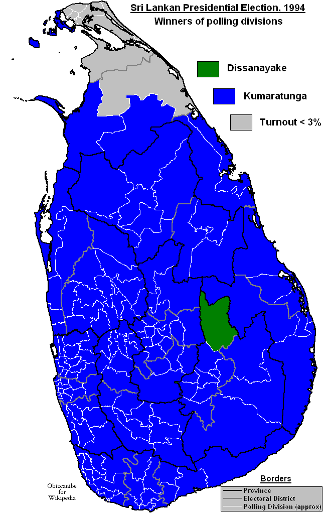 Map showing winners of polling divisions in the Sri Lankan presidential election of 1994.